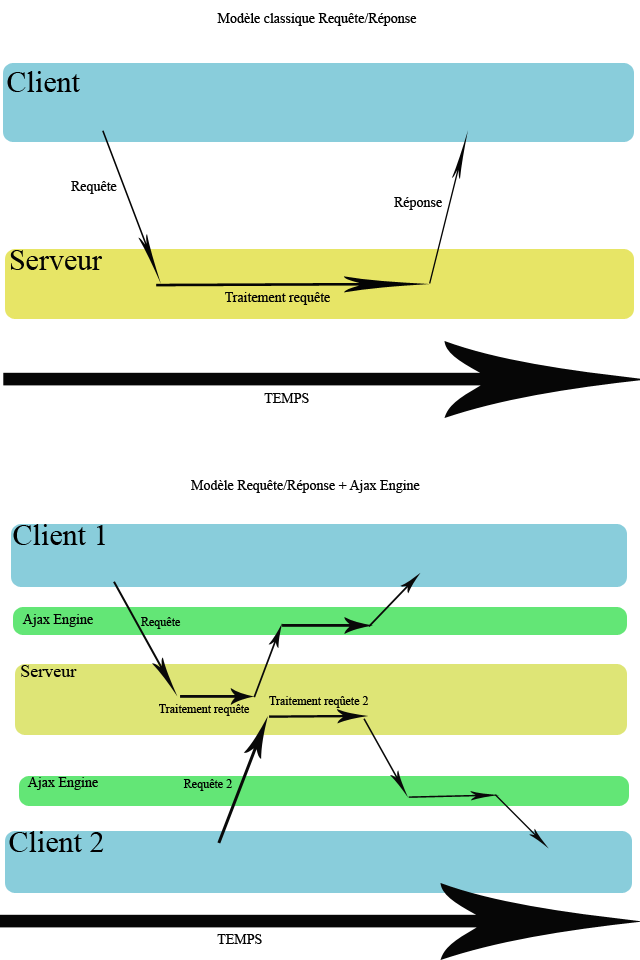 Presents ajax benefits